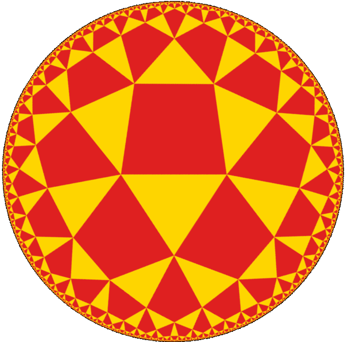 Tritetragonal_tiling image, centered on edge